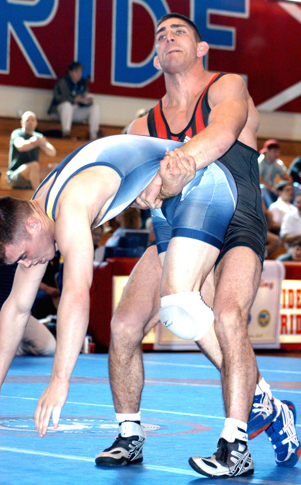 March 12, 2004 Staff Sgt. Keith Sieracki lifts Navy's Jason Nichols during 5-1 victory in the 74-kilogram Greco-Roman division of the 2004 Armed Forces Wrestling Championships March 6 at Metairie, La.